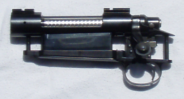 Standard length left-handed Remington 700 rifle action (left side)